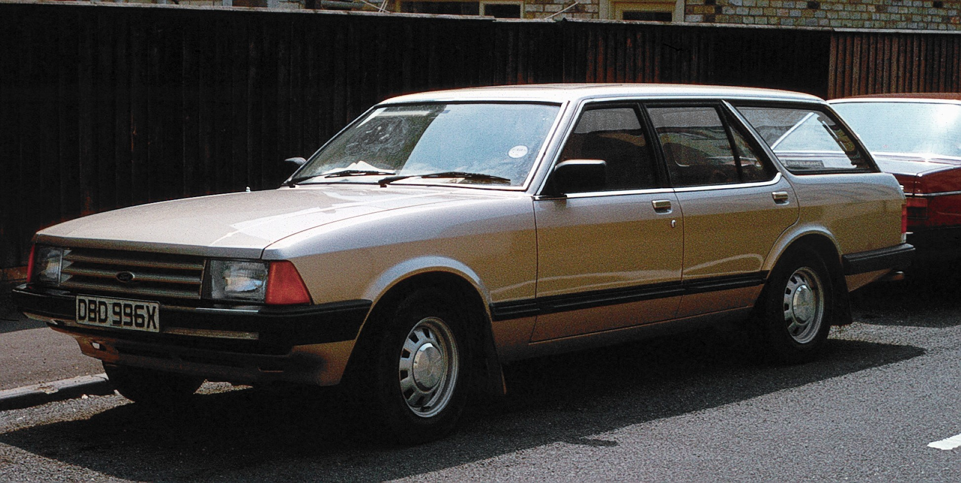 Ford Granada Station Wagon (Currently on SORN)